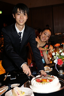 Yuzuru Hanyu and Mao Asada at the 2013 Grand Prix Final.